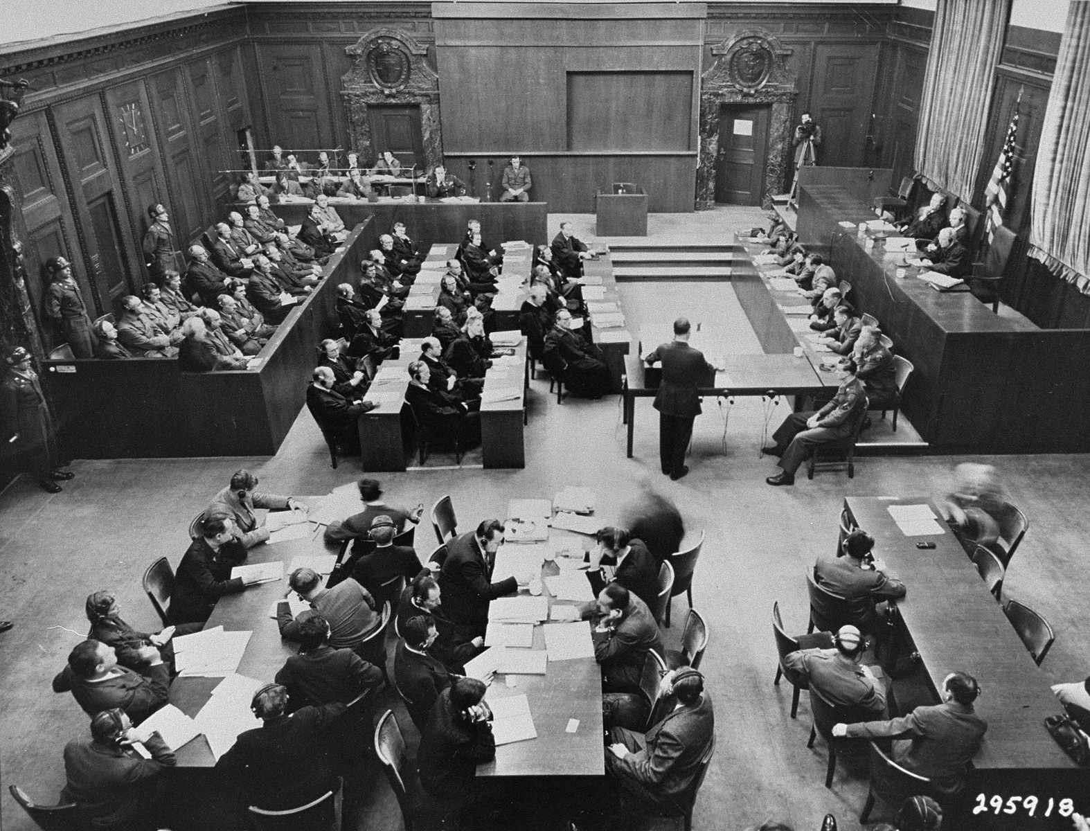 Telford Taylor delivers the prosecution's opening statement in the Ministries Trial.